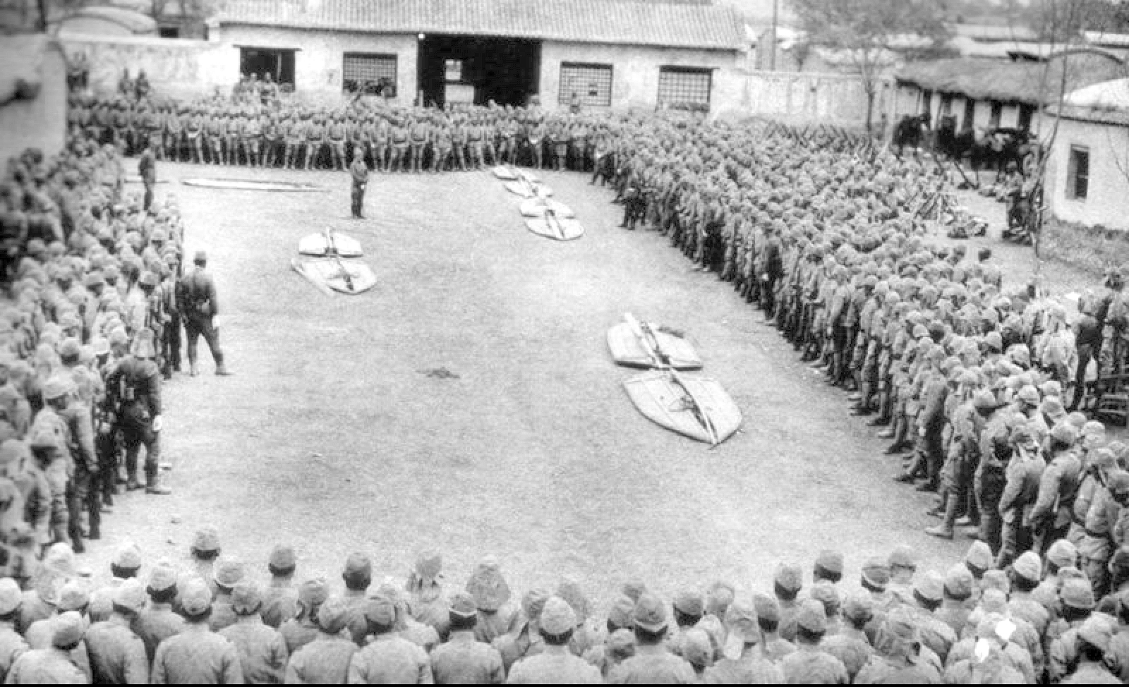 Engineers of IJA 2nd Army are introduced to the Type 95 Folding Boat, during the battle of Xuzhou, 1938